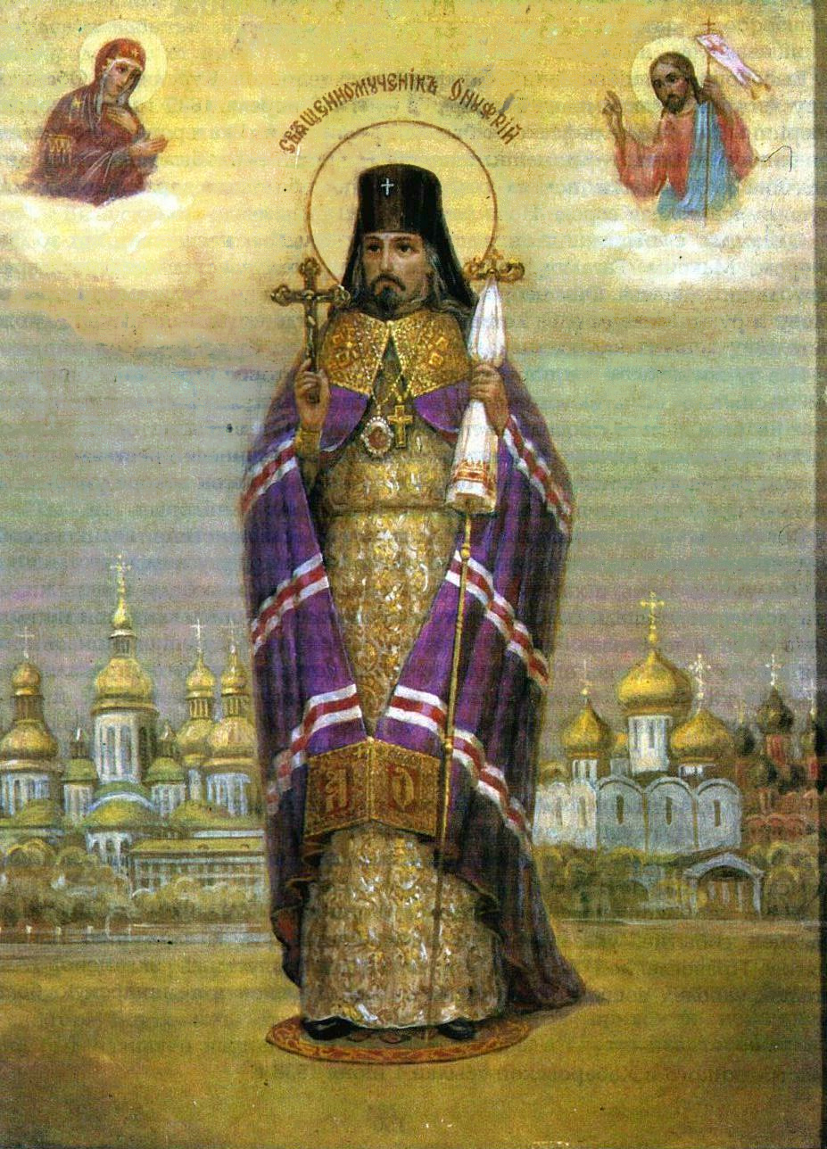 Icon of Hieromartyr Onouphry (Gagalioka)